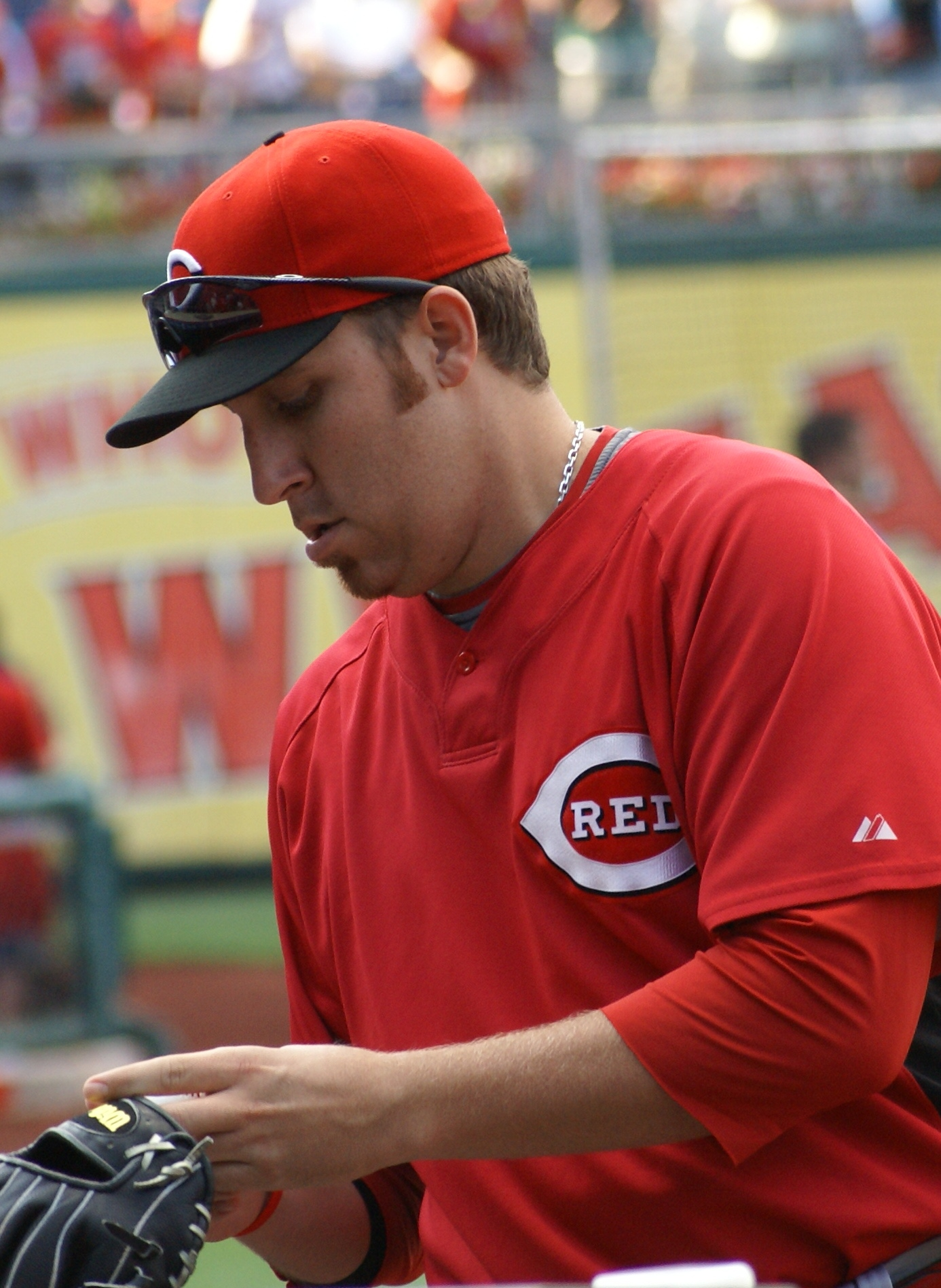 Description Aaron Harang signing an autograph before a game in Philadelphia, July 2009 DateSourceI (Blevine37) (talk)) created this work entirely by myself.AuthorBlevine37 (talk) 22:42, 20 July 2009 . . Blevine37 . . 1,386×1,897 (681 KB) Aaron Harang signing an autograph before a game in Philadelphia, July 2009